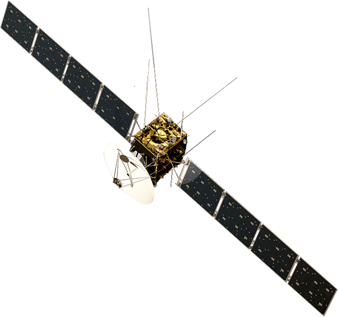 Illustration of the Jupiter Icy Moons Explorer spacecraft on a transparent background.